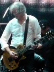 A reunited Led Zeppelin in December 2007, Jimmy Page at The O2 in London for the Ahmet Ertegün tribute show. Cropped from Image:Led Zeppelin 2007.jpg Can't someone provide a better image than this?!